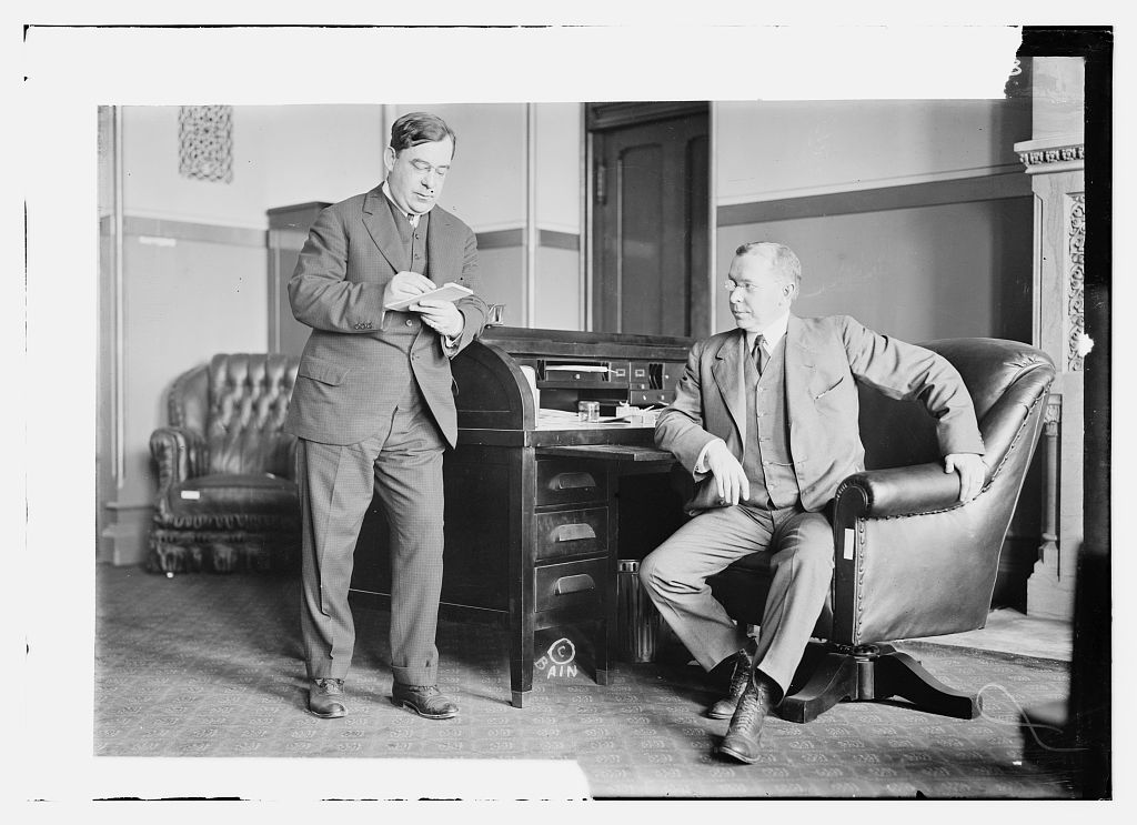 Secy. Frank A. Tierney and Governor Glynn.